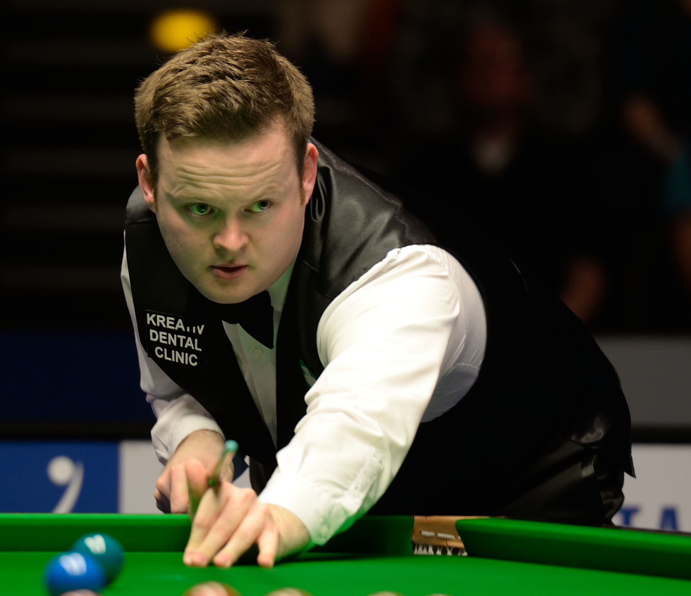 Picture taken in Berlin during the Snooker German Masters in 2015. Shaun Murphy.